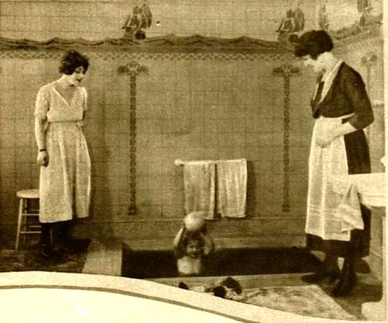 Still from the American film The Child Thou Gavest Me (1921) with Barbara Castleton (left), Richard Headrick as the child Bobby, and an unidentified actress. On the day of their wedding, a groom is shocked when his bride reveals that she is the mother of a young child. Page 44 of the December 1921 Screenland.